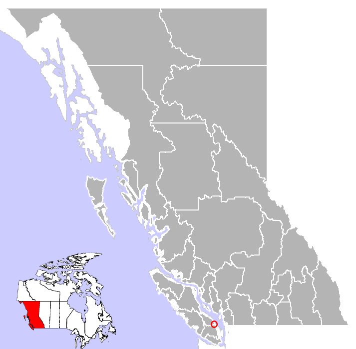 Ladysmith, British Columbia location.